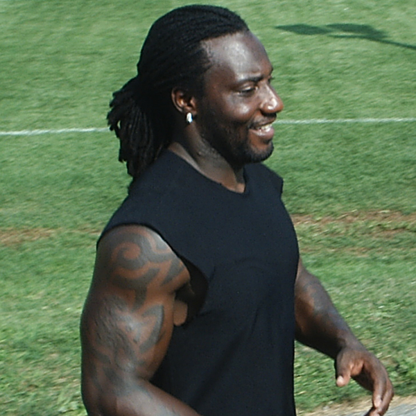 photo of Tyrone Carter at Steelers training camp in 2007